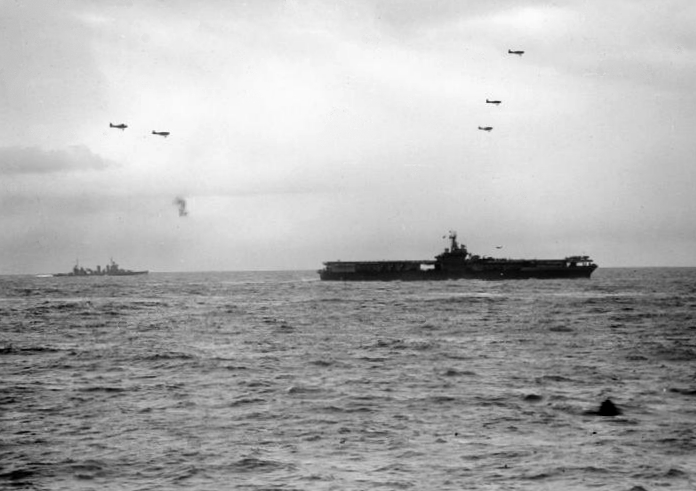 The U.S. Navy aircraft carrier USS Ranger (CV-4) and the heavy cruiser USS Tuscaloosa (CA-37) under way during "Operation Leader", an attack on German shipping in Norwegian fiords around Bodø.